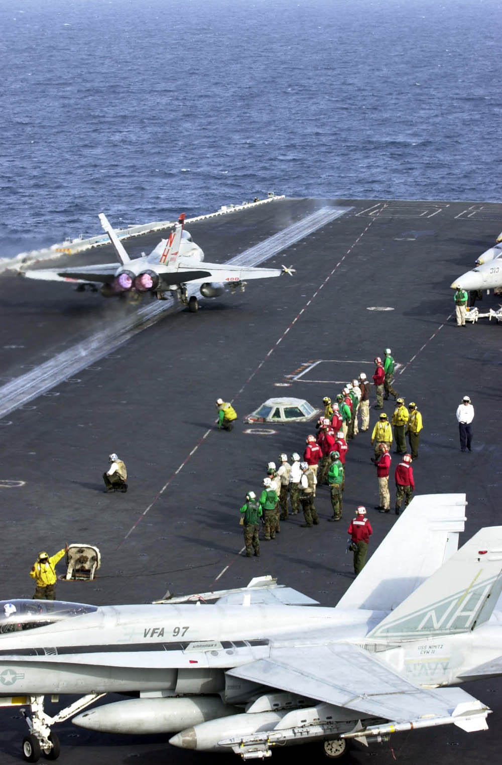 The Arabian Sea (Apr. 7, 2003) -- An F/A-18 Hornet from the "Mighty Shrikes" of Strike Fighter Squadron Ninety Four (VFA-94) launches from the flight deck of USS Nimitz (CVN 68). The Nimitz Carrier Strike Group and Carrier Air Wing Eleven (CVW-11) are expected to join coalition forces in support of Operation Iraqi Freedom, the multi-national coalition effort to liberate the Iraqi people, eliminate Iraq's weapons of mass destruction, and end the regime of Saddam Hussein.